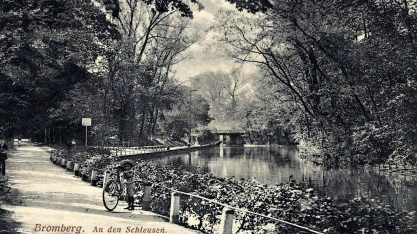 Park canal 1908 Bromberg